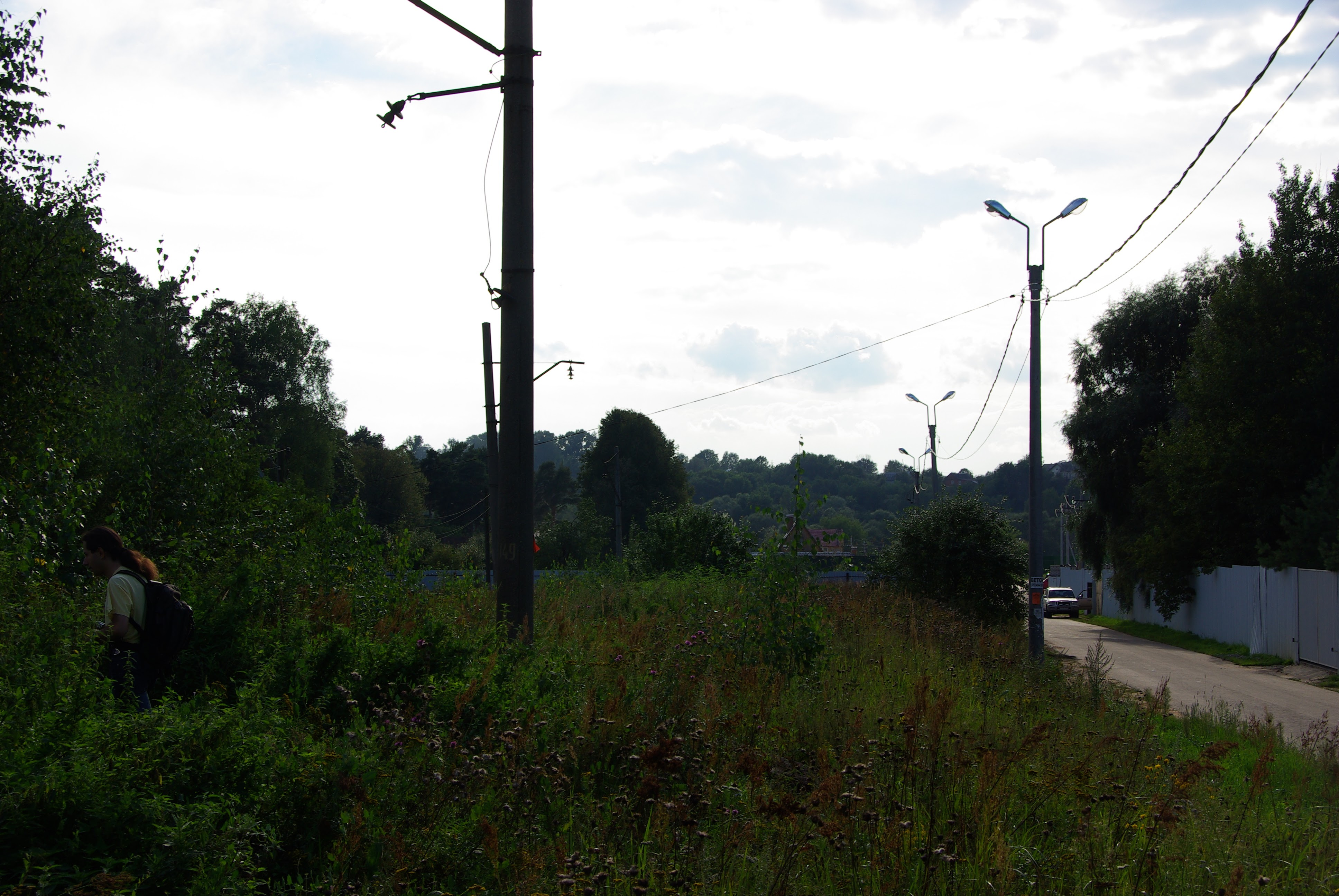 Nakhabino - Pavlovskaya sloboda railway line